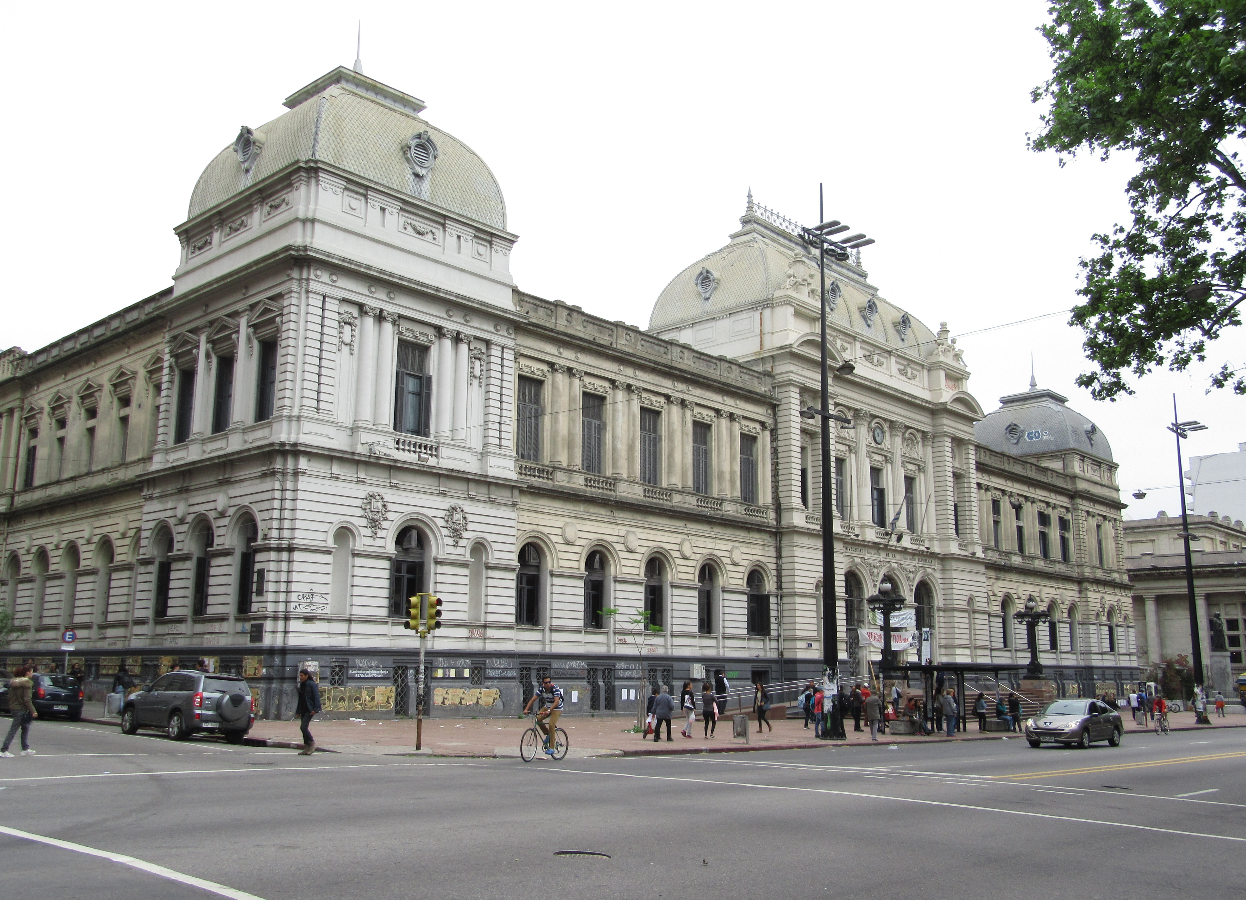 Montevideo